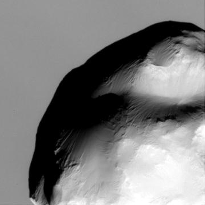 N00152248.jpg was taken by Cassini on March 03, 2010 and received on Earth March 03, 2010. The camera was pointing toward HELENE, and the image was taken using the RED and CL2 filters. This image has not been validated or calibrated. A validated/calibrated image will be archived with the NASA Planetary Data System in 2011. The original NASA image has been modified by cropping and doubling the linear pixel density.